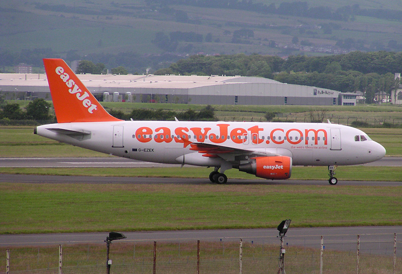 easyJet at Glasgow